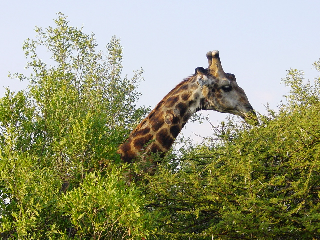 A bull Giraffe in the Kruger National Park